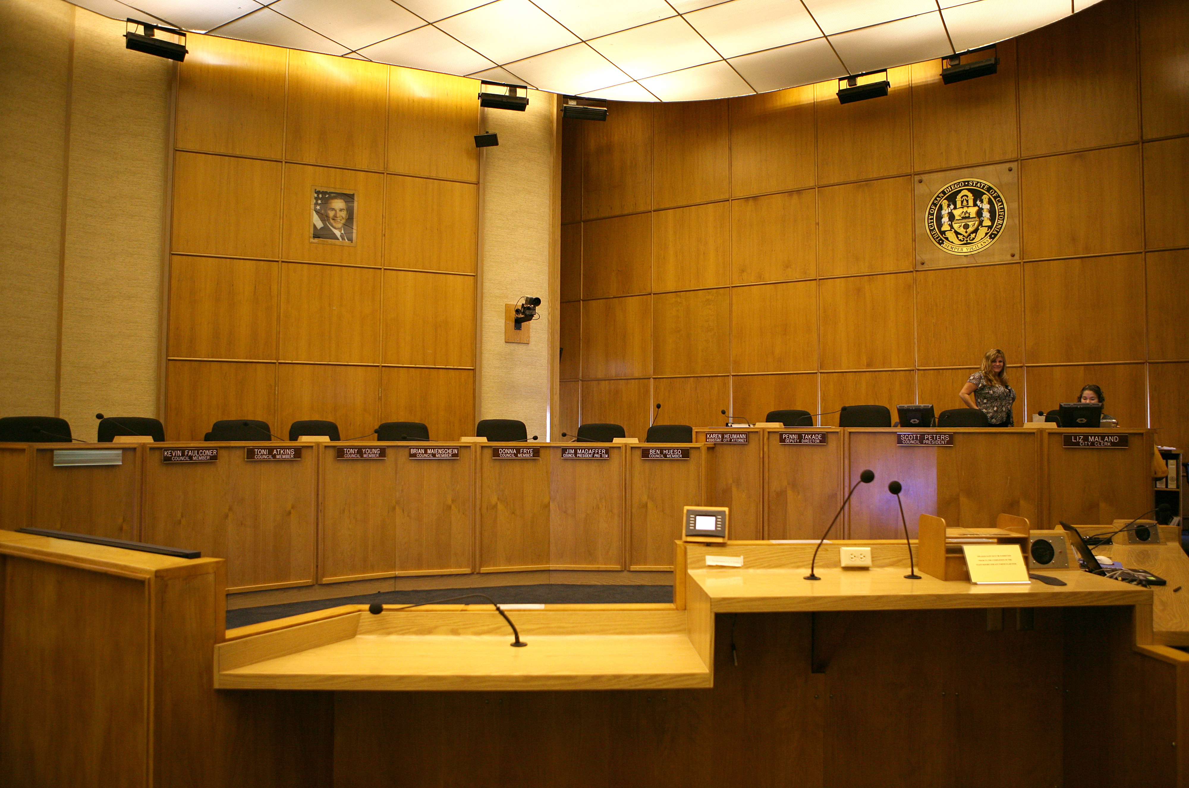 San Diego City Council chambers